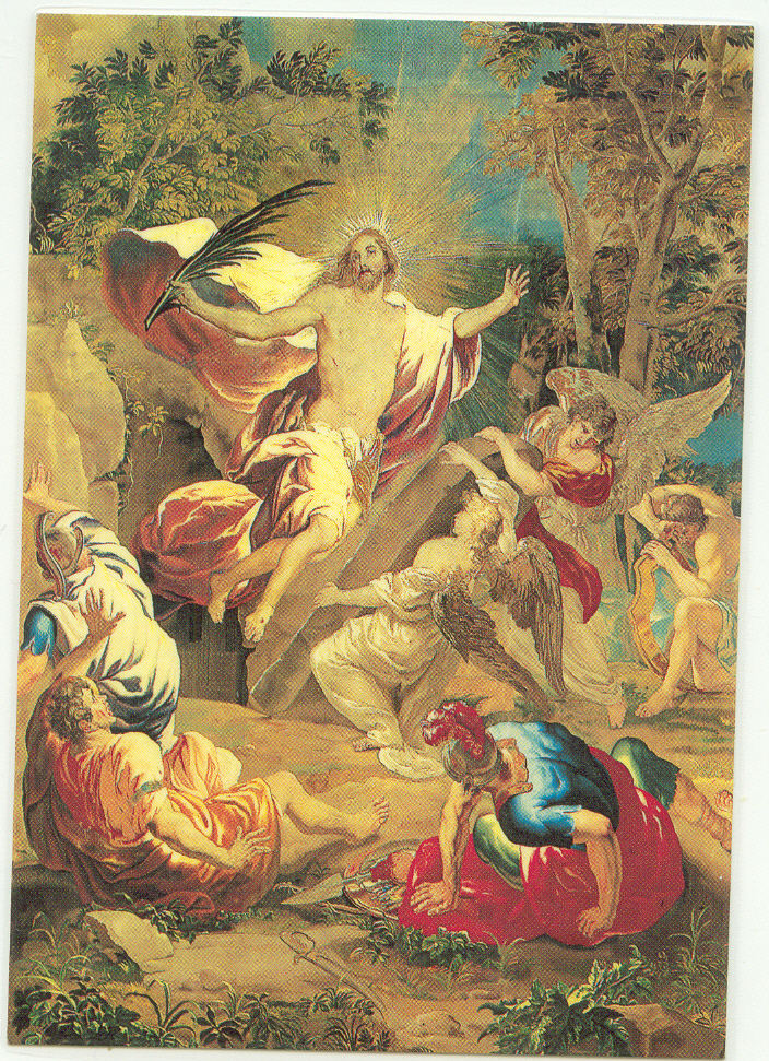 artifact from vatican-Holy See-vatican archives-sistine chapel prefecture-vatican prefecture